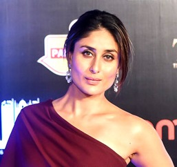 Kareena Kapoor Khan at the red carpet of TOIFA 2016